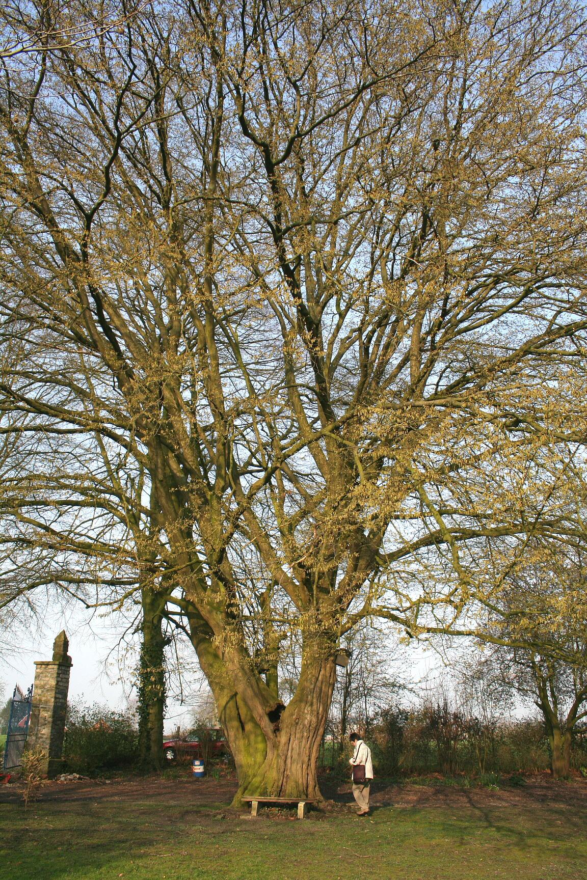 European Hornbeam.